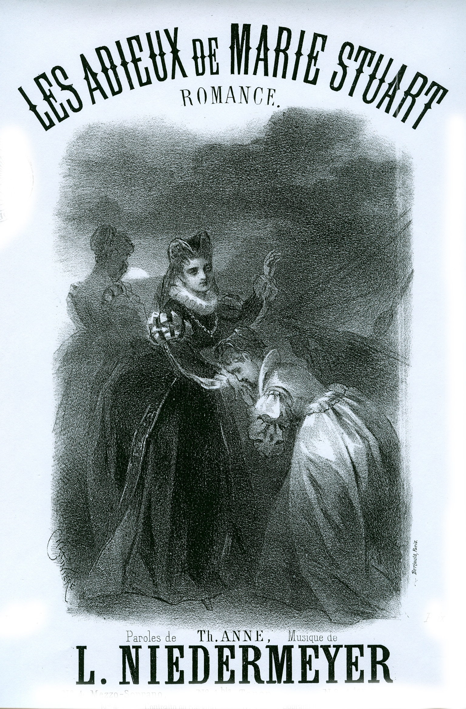 Cover of the piano vocal score for "Les adieux de Marie Stuart", an aria from the 1844 opera Marie Stuart by Louis Niedermeyer